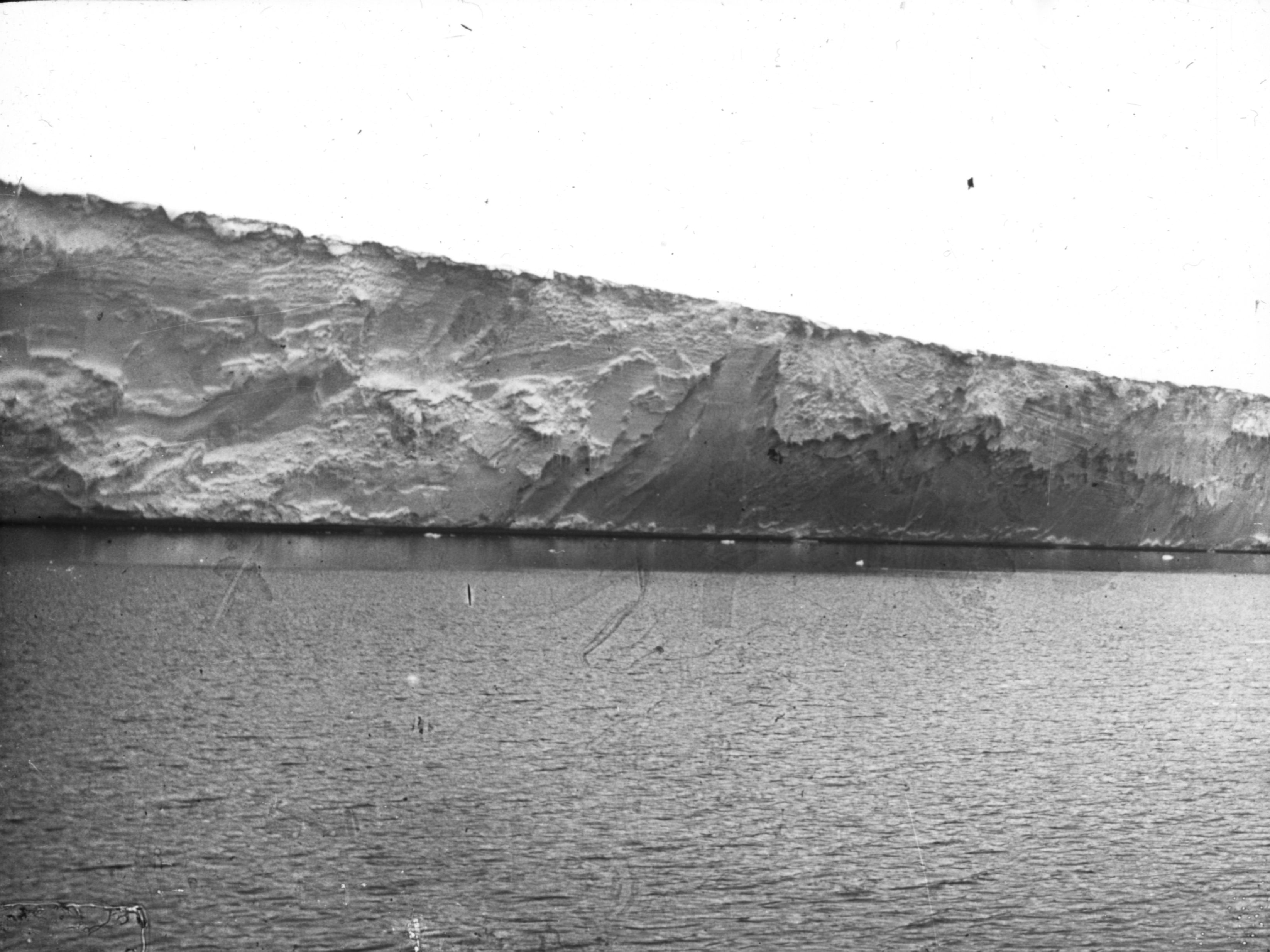 Photographs of the Nimrod Expedition (1907-09) to the Antarctic, led by Ernest Sheckleton